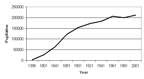 Aberdeen Demographic Chart (Data taken from [1])